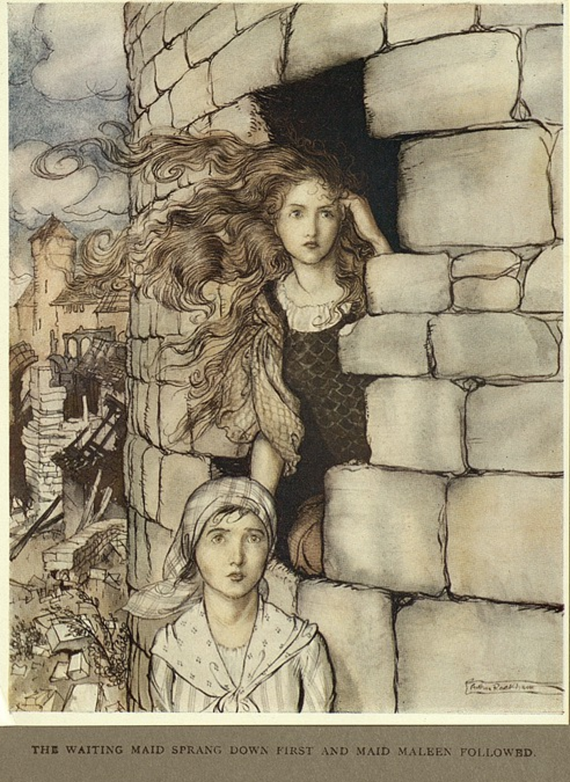 Little brother & little sister and other tales by the Brothers Grimm, illustrated by Arthur Rackham, 1917.